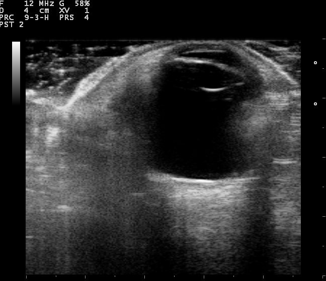 Ultrasound images of eyes